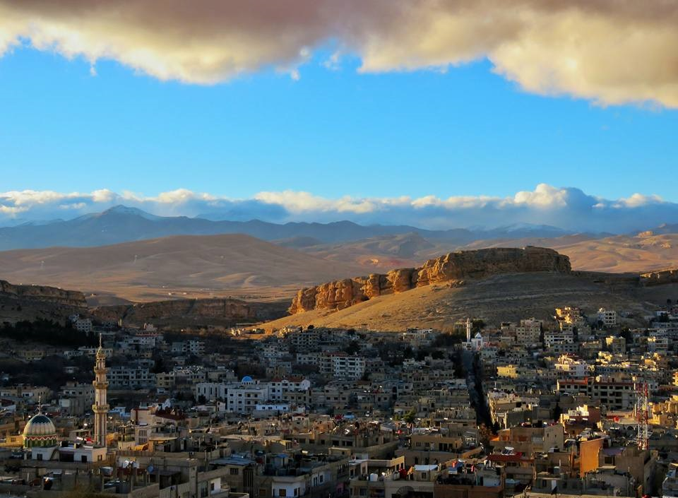 view of the city of Yabroud